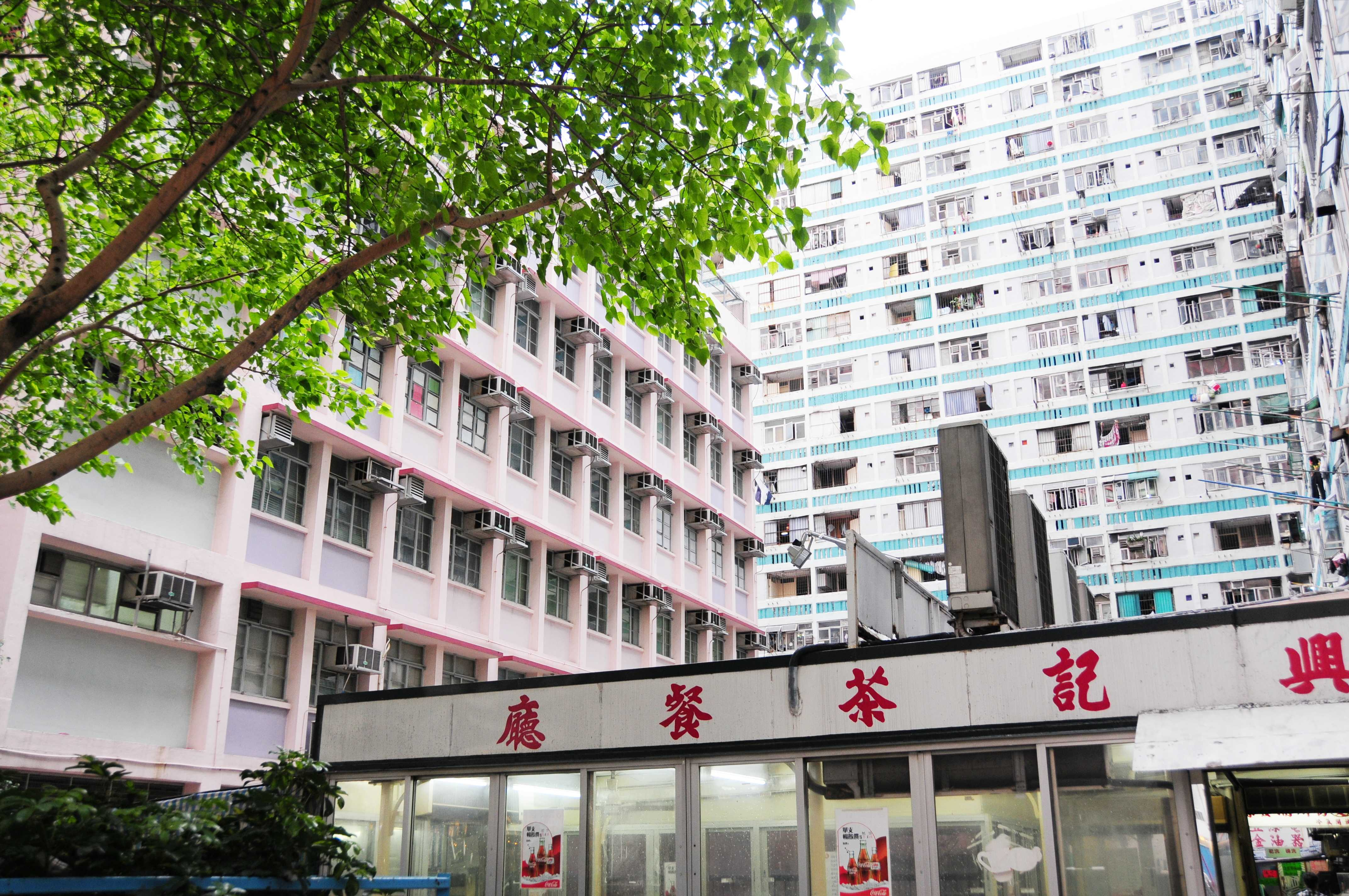 Bishop Paschang Memorial School as viewed from Hing Kee